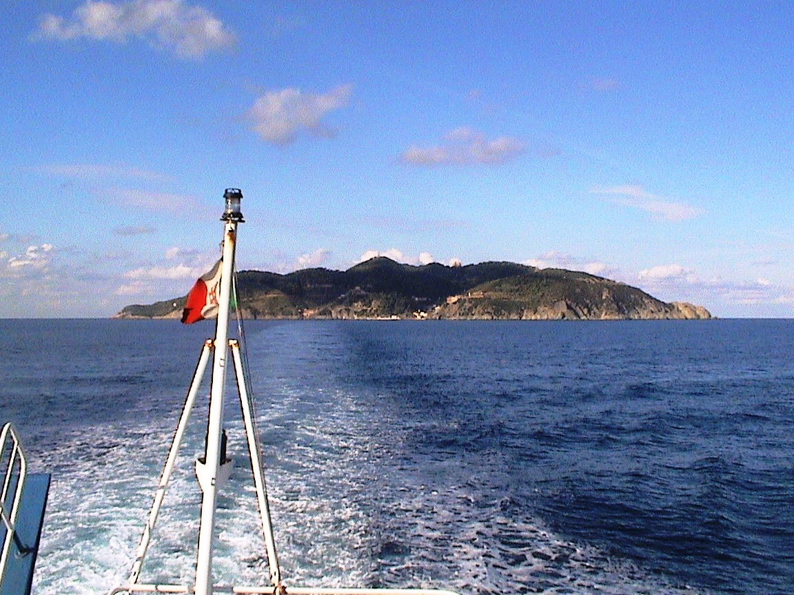 Italy, Tuscany, Gorgona Island. It is part of the Tuscan Archipelago and is the closest to Livorno.